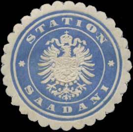 Sealing stamp Title: Station Saadani Description: Eisenbahn Place: Saadani size: 4 cm